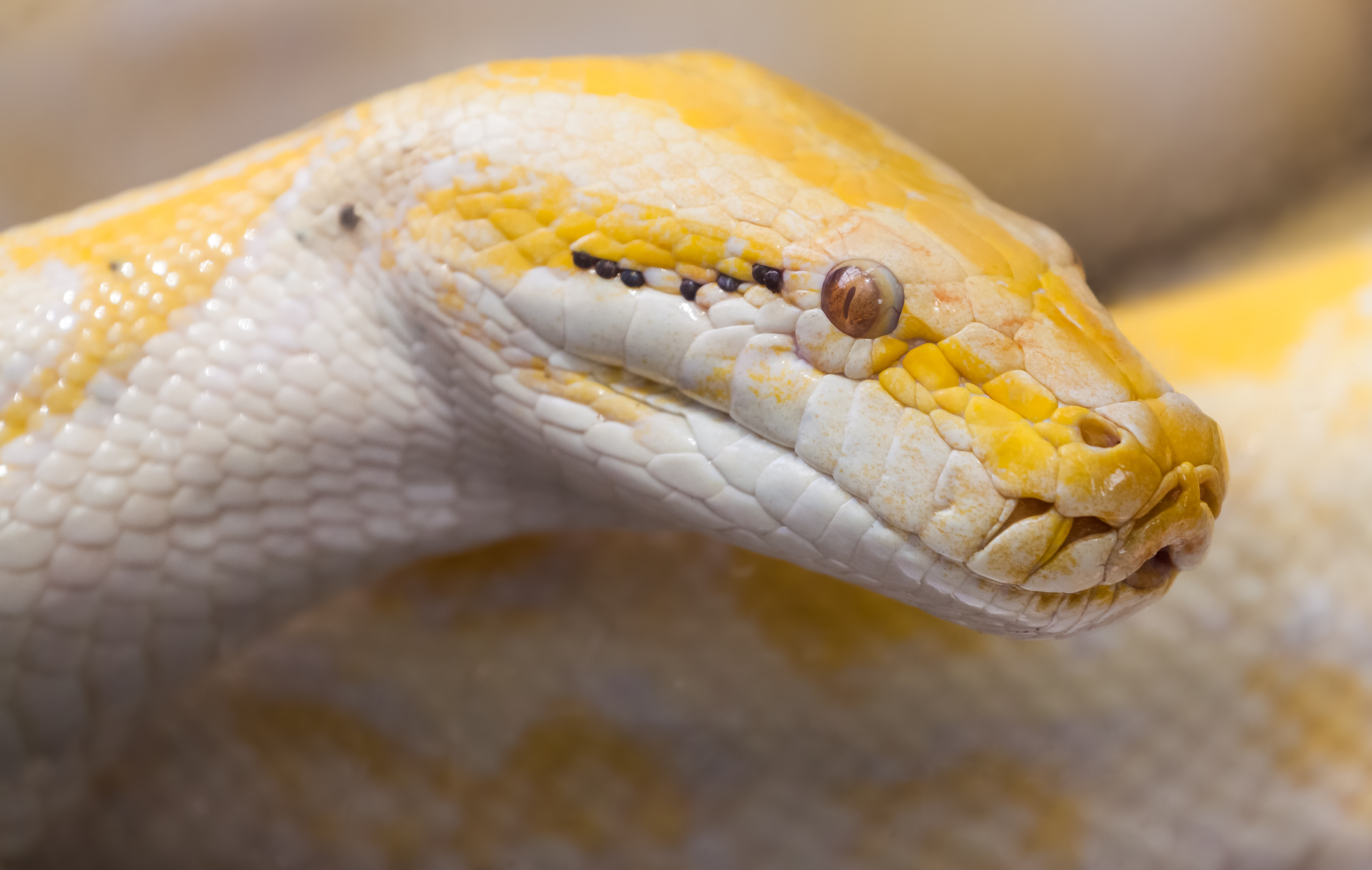 Indian python albino (Python molurus), Ho Chi Minh City Zoo, Vietnam